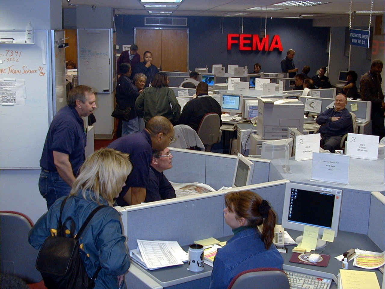 Washington, DC December 31, 1999 -- FEMA Headquarters Emergency Support Team is on 24 hour operations until the Y2K rollover is complete. All government agencies have personnel located here. Photo by Liz Roll/ FEMA News Photo